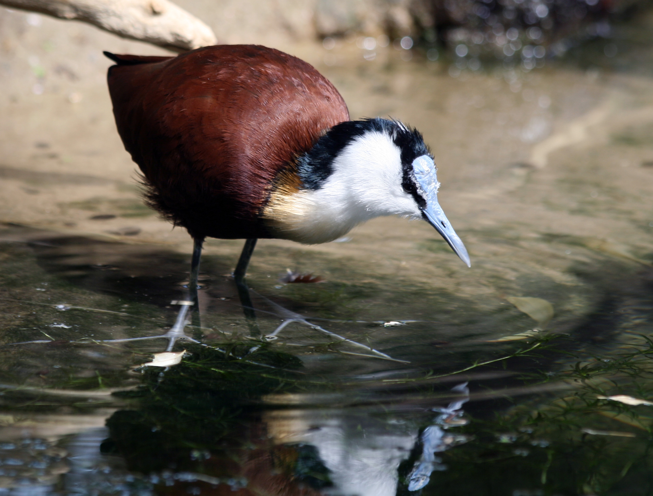 African Jacana at the Tiergarten Schönbrunn in Vienna